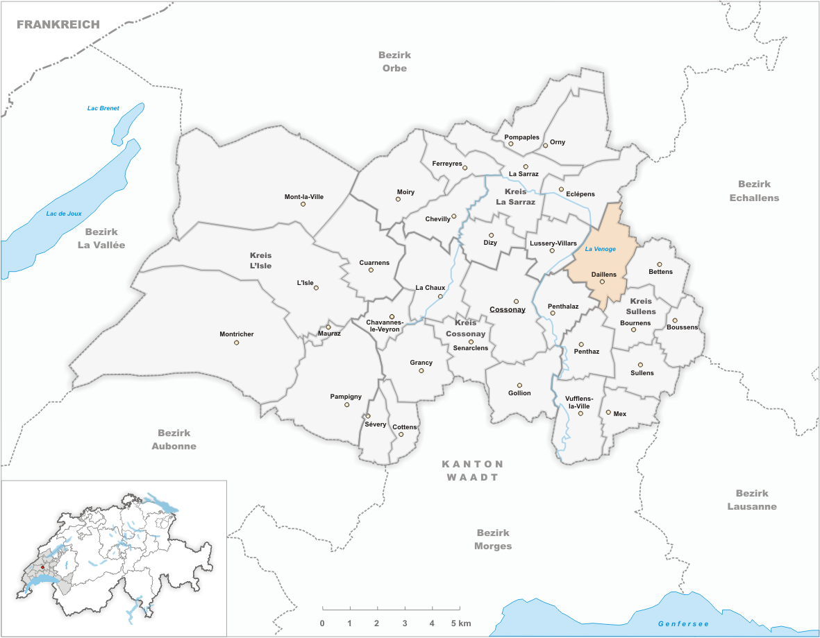 Municipality Daillens